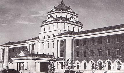 Manchukuo Justice ministry